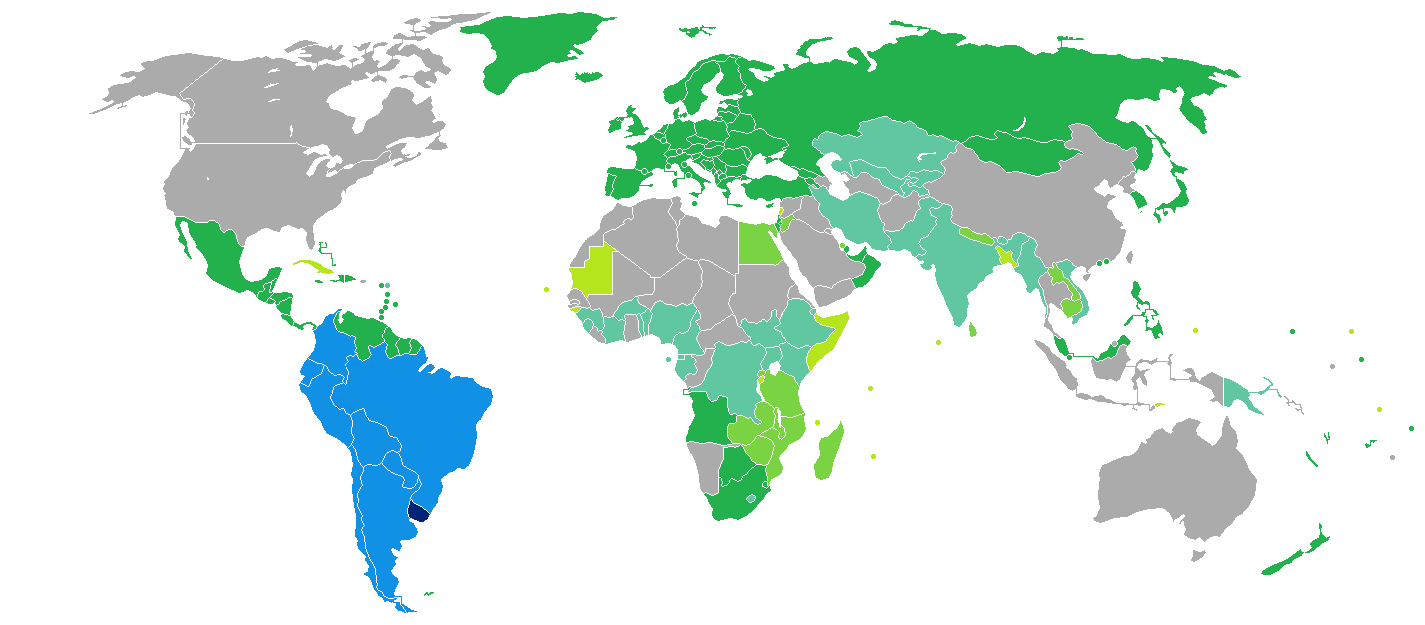 Visa requirements for Uruguayan citizens Uruguay ID card travel Visa free access Visa on arrival eVisa Visa available both on arrival or online Visa required